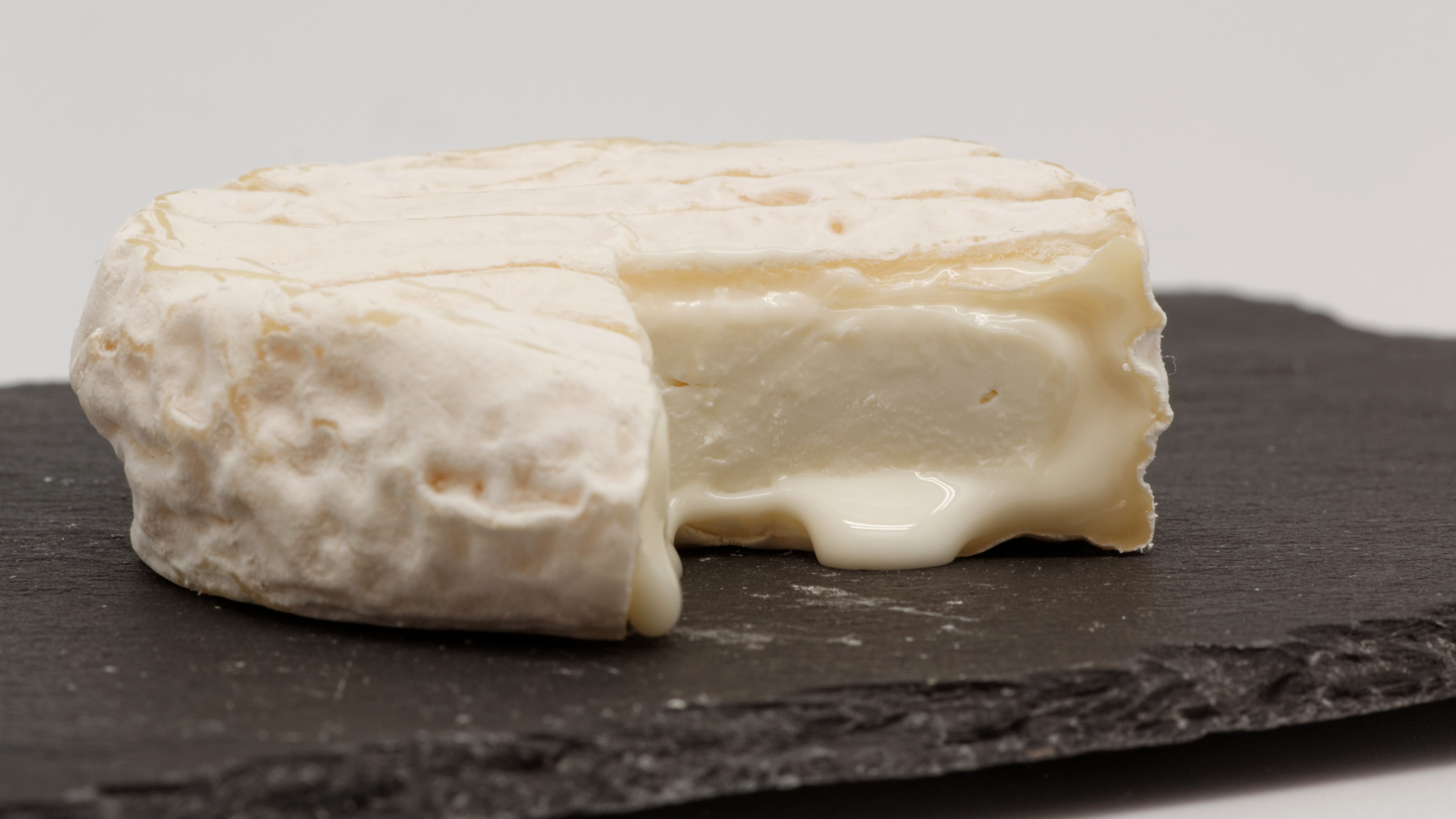 Pélardon